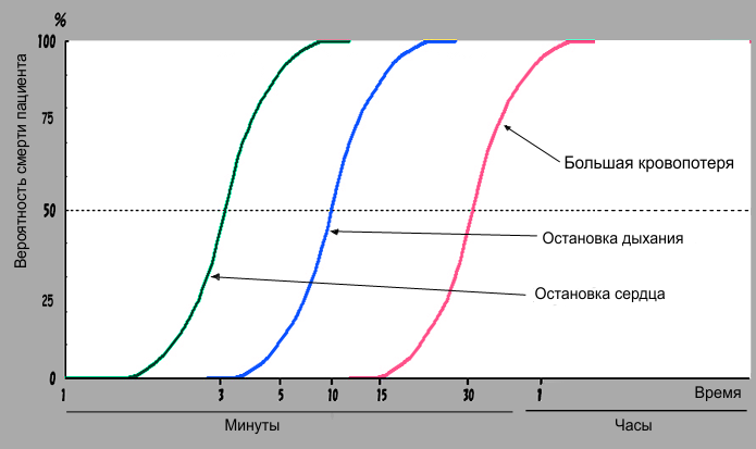 Golden Hour Principle Graph